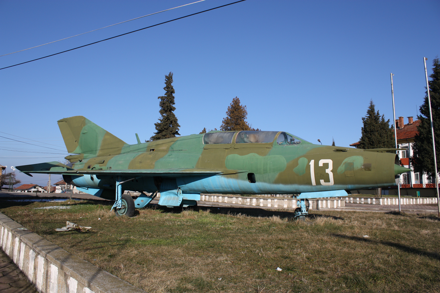 MIG fighter monument in the central square of Dabravite